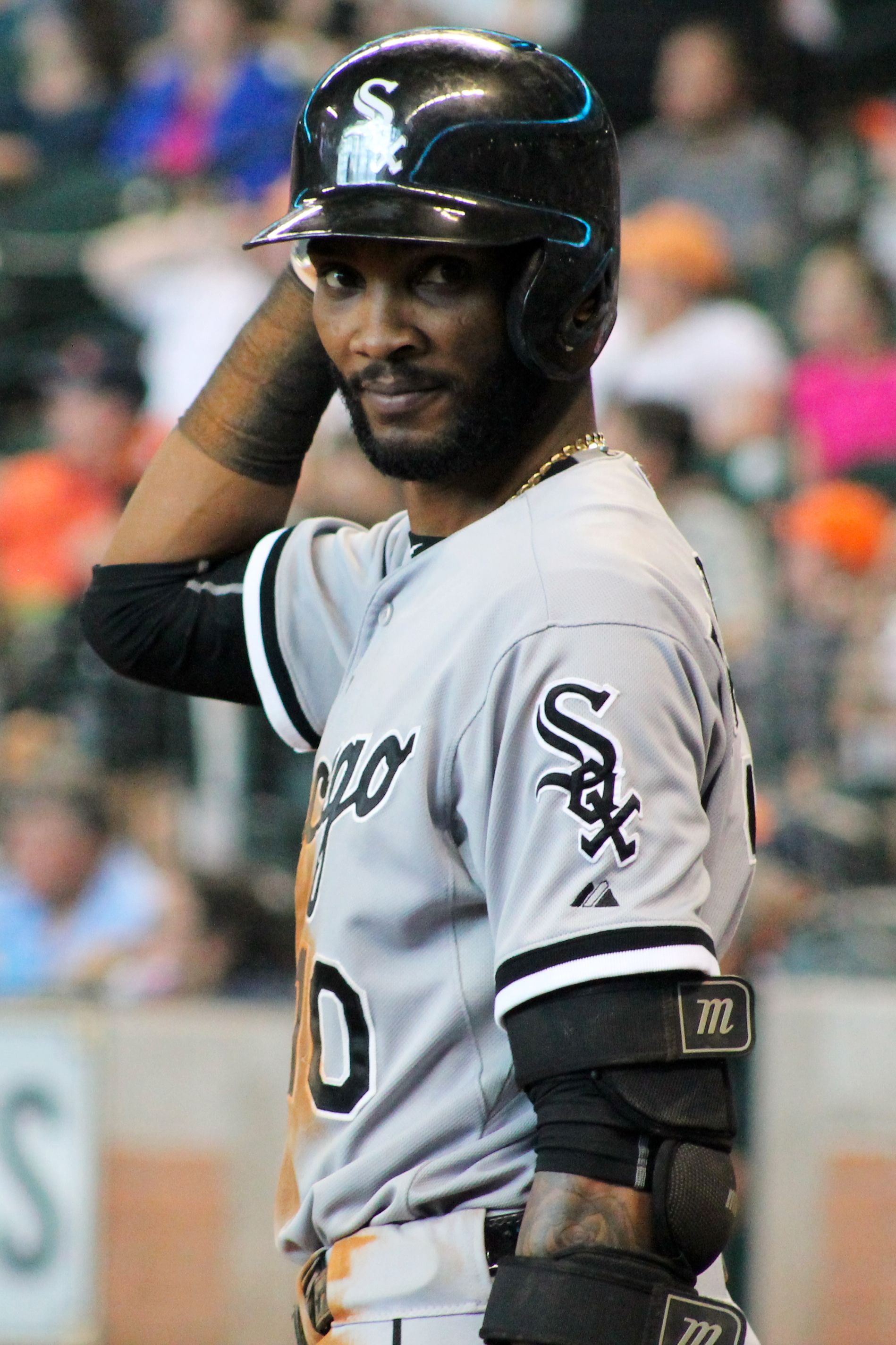 Professional baseball player Alexei Ramírez during a May 2015 game at Minute Maid Park.